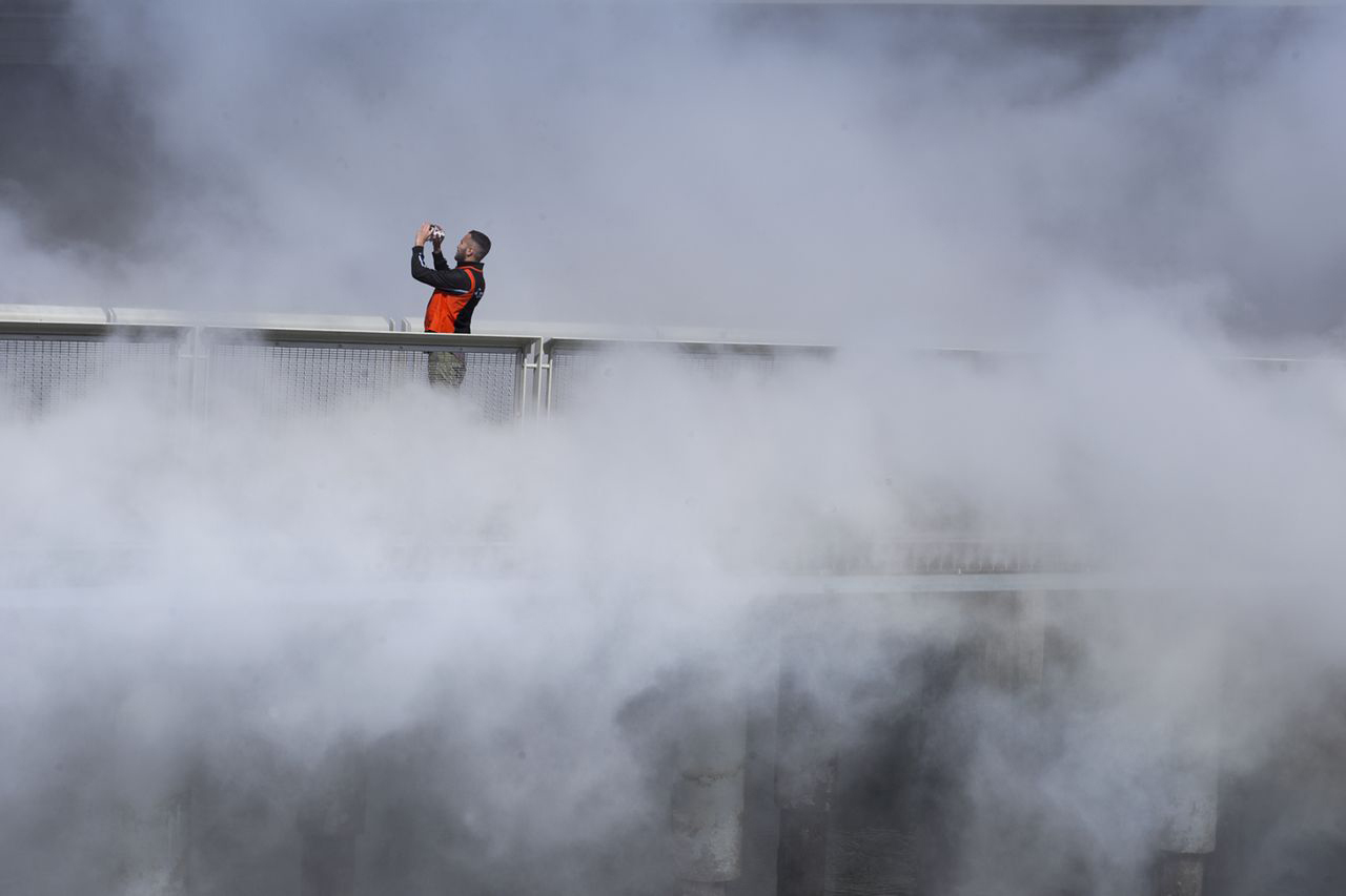 Mist from Fujiko Nakaya’s Fog Bridge drifts over the water between Piers 15 and 17 at the Exploratorium. Fog Bridge is the inaugural work in the museum’s new Over the Water series, a rotating program of large-scale commissioned artworks for the public realm.